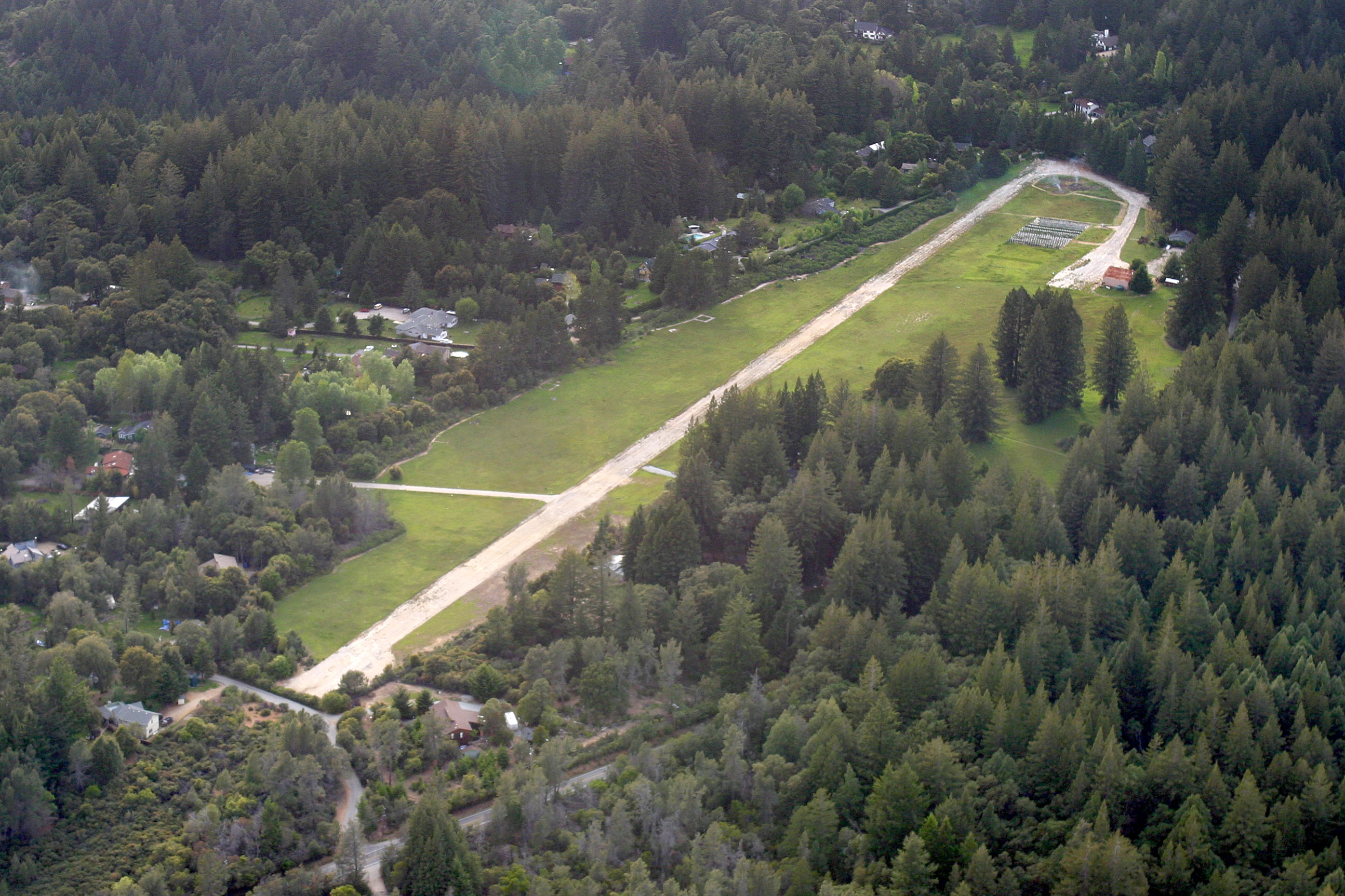 Aerial view of Bonny Doon Village Airport in Bonny Doon, California photographed on 2005-04-22 by DanDawson